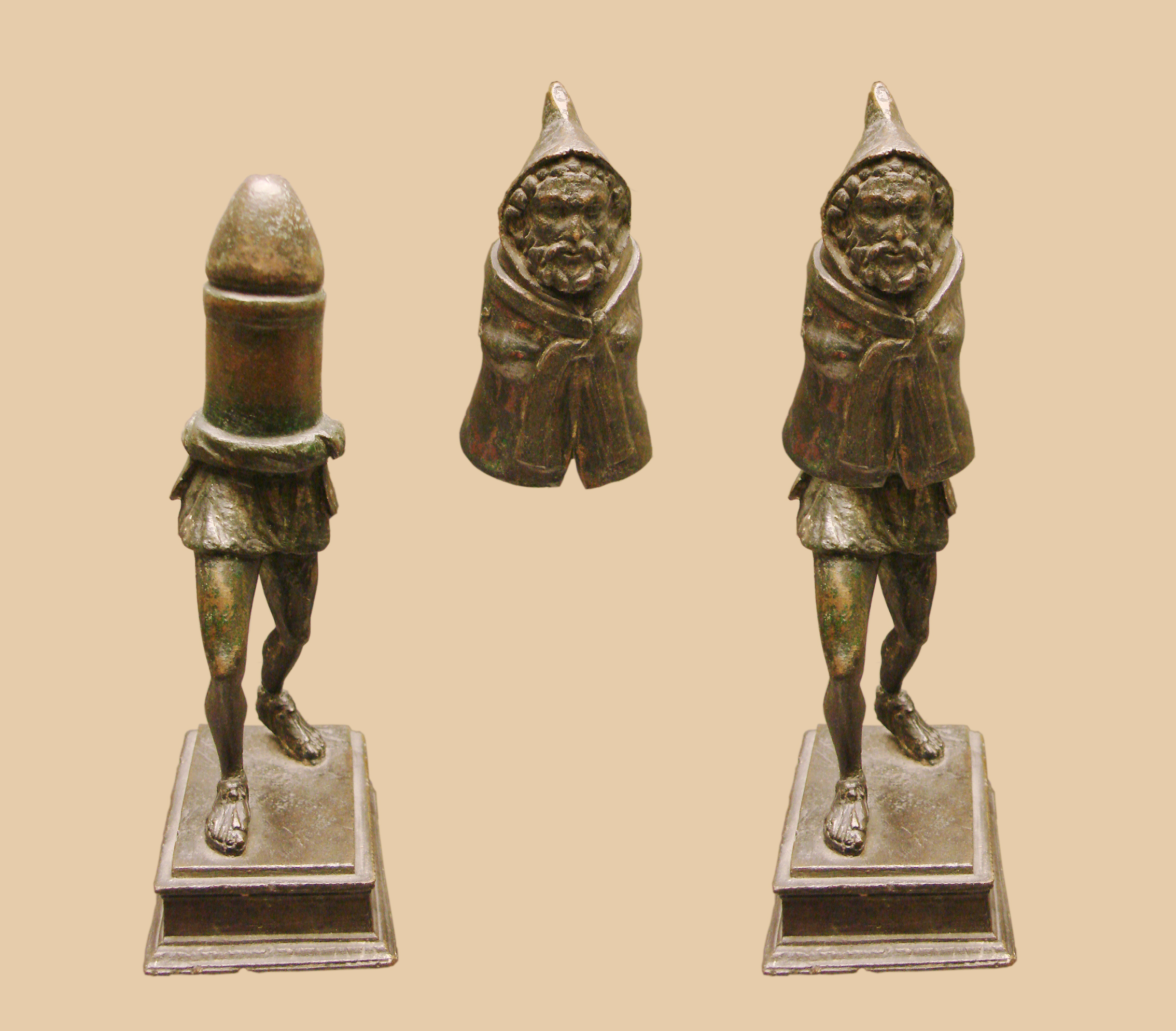 Bronze statuette possibly of the Roman fertility god Priapus, made in two parts (shown here in assembled and disassembled forms). This statuette has been dated to the late 1st century C.E. It was found in Rivery, in Picardy, France in 1771 and is the oldest Gallo-Roman object in the collection of the Museum of Picardy. This figurine represents the deity clothed in a "cuculus", a Gallic coat with hood, and may be an example of the Genii cucullati. This upper section is detachable and conceals a phallus.